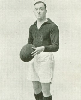 Photograph of Fred Mutch in 1924